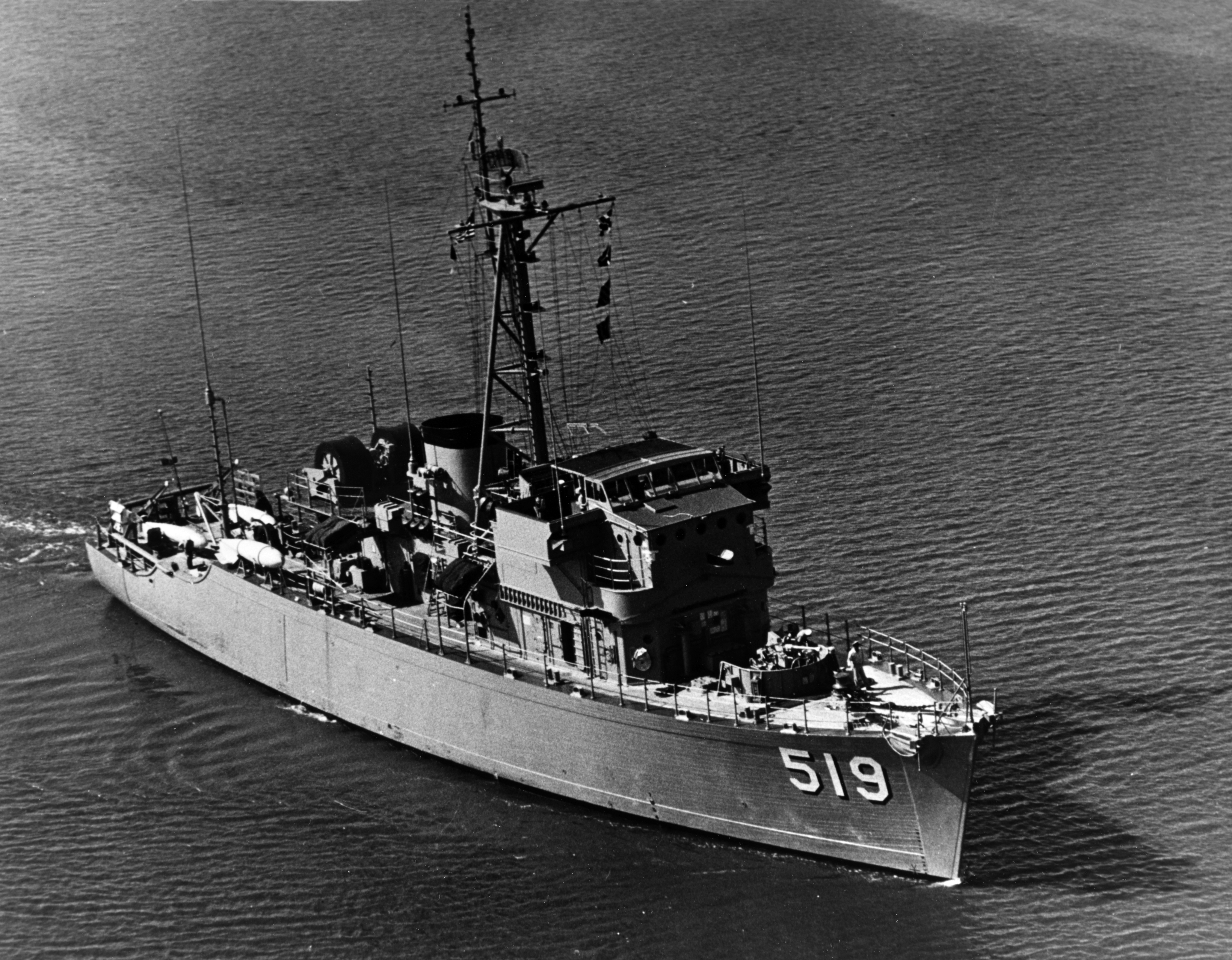 The U.S. Navy ocean minesweeper USS Ability (MSO-519) underway near the Charleston Naval Shipyard, South Carolina (USA), 23 March 1959. Visible on the after portion of the ship is her minesweeping gear, including the otters visible on her main and forecastle decks, and the reels of alloy cable.